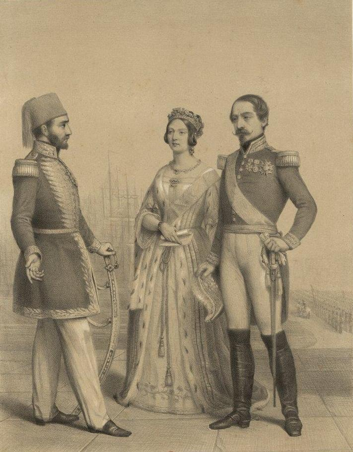 Sultan of the Ottoman Empire, Abdulmecid I; Queen of United Kingdom and Ireland, Victoria; and President of France, Napoleon III.